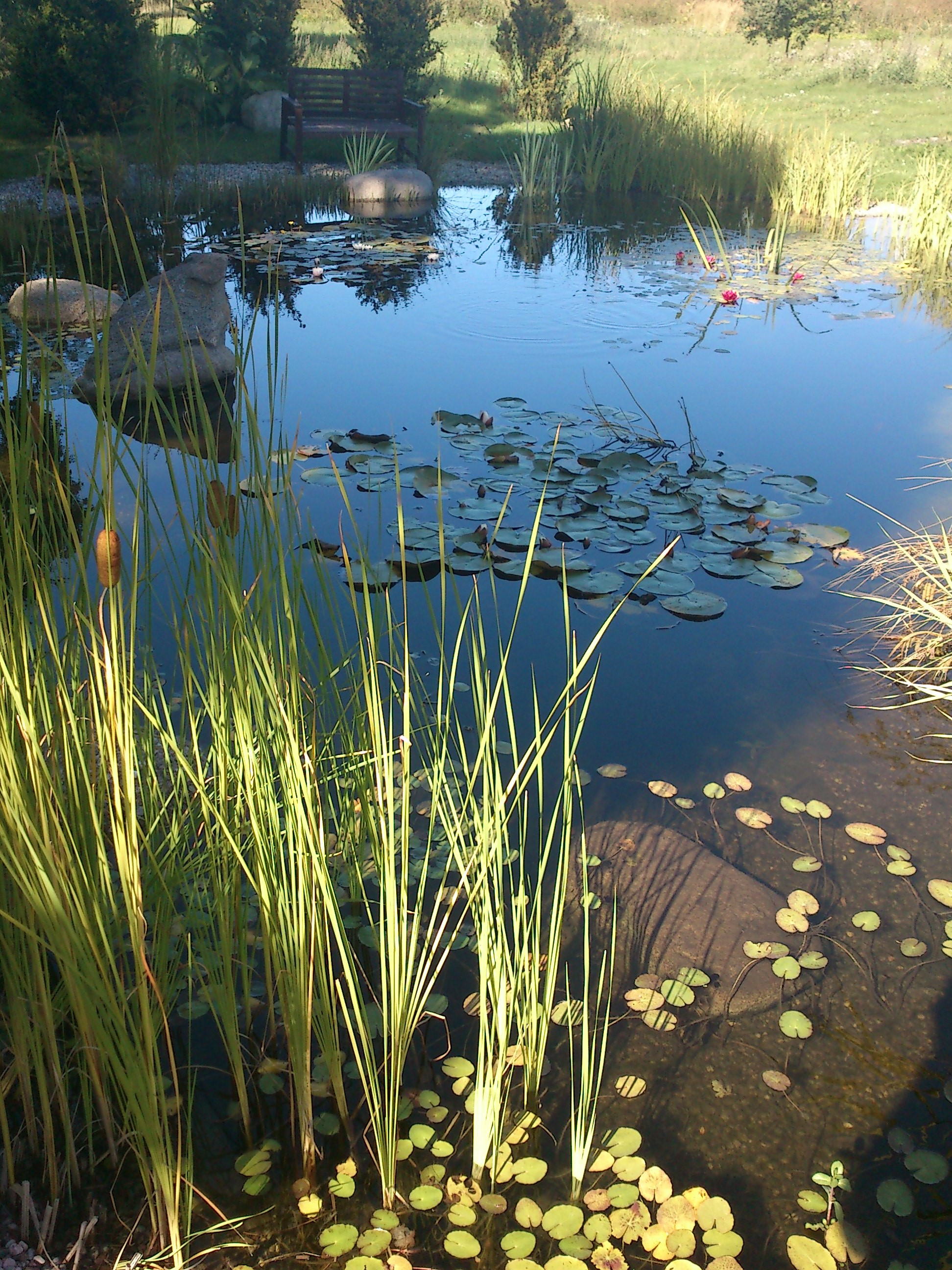 The pond in late August